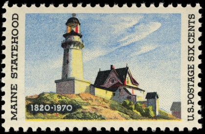 Maine statehood is commemorated on the 6-cent stamp picturing the Lighthouse at Two Lights, Maine, issued July 9, 1970.